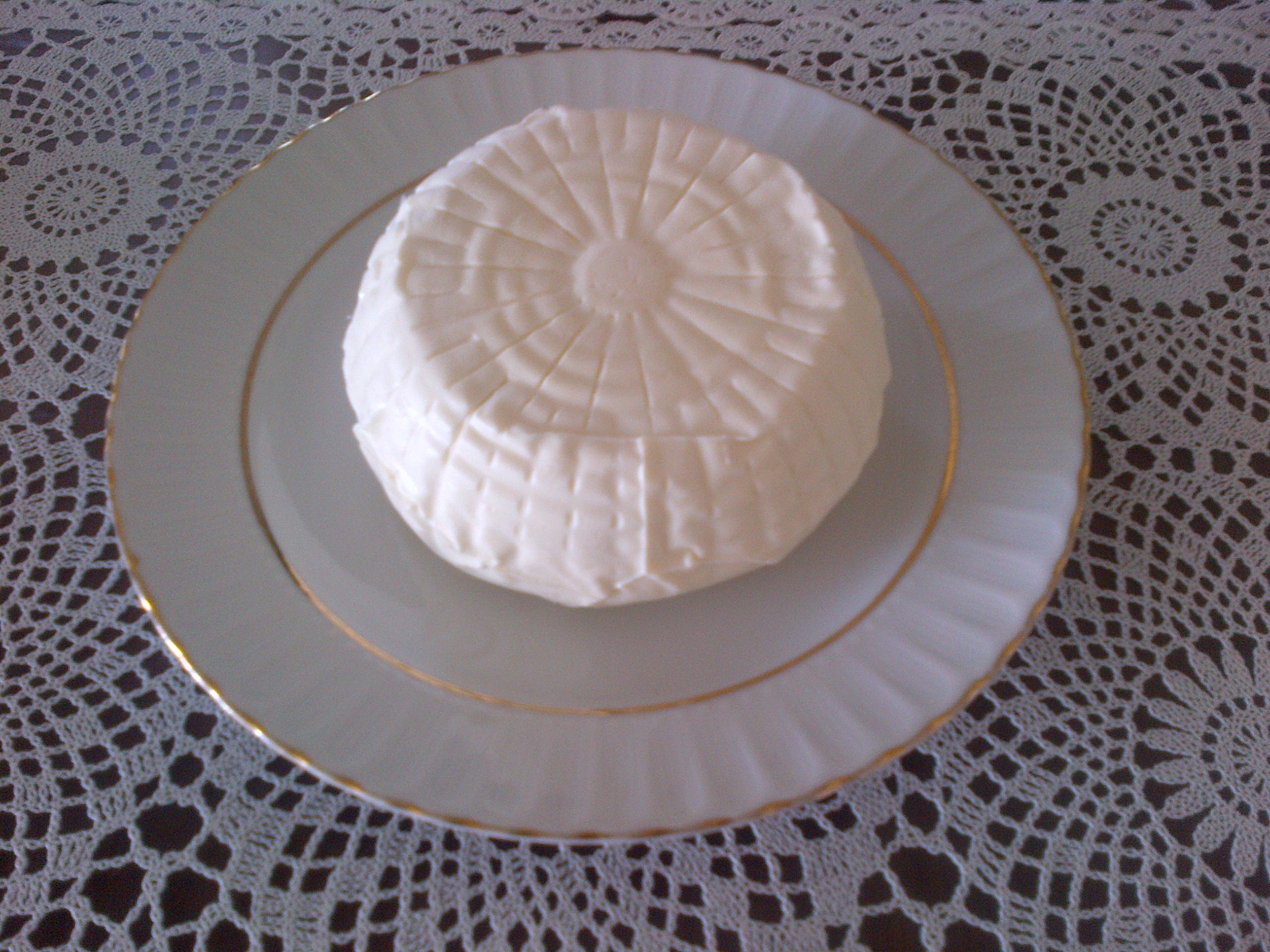 "Çerkes peyniri" from Turkey